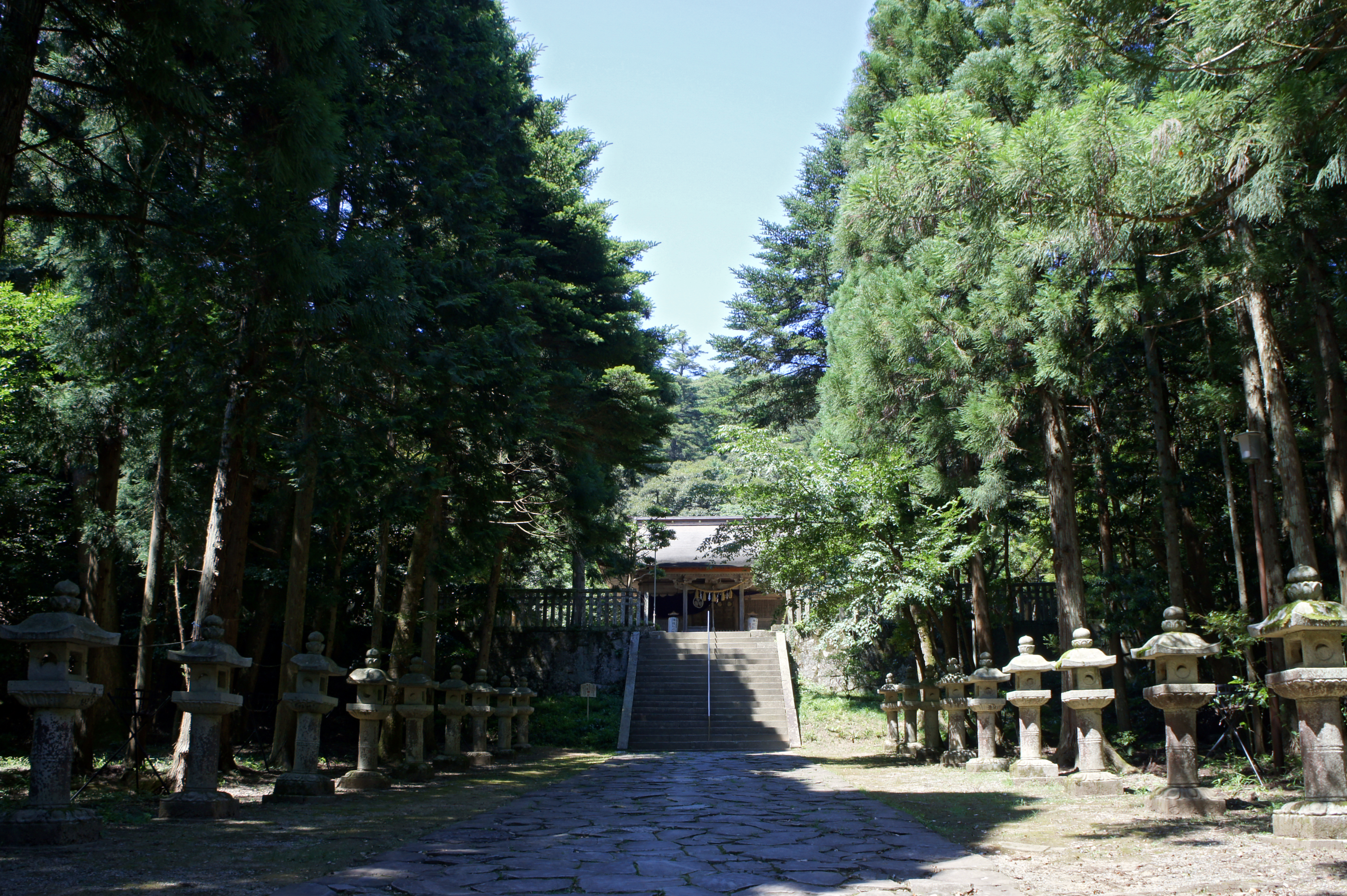 Tottori Tosho-gu (Ōchidani Jinja) in Tottori, Tottori prefecture, Japan.